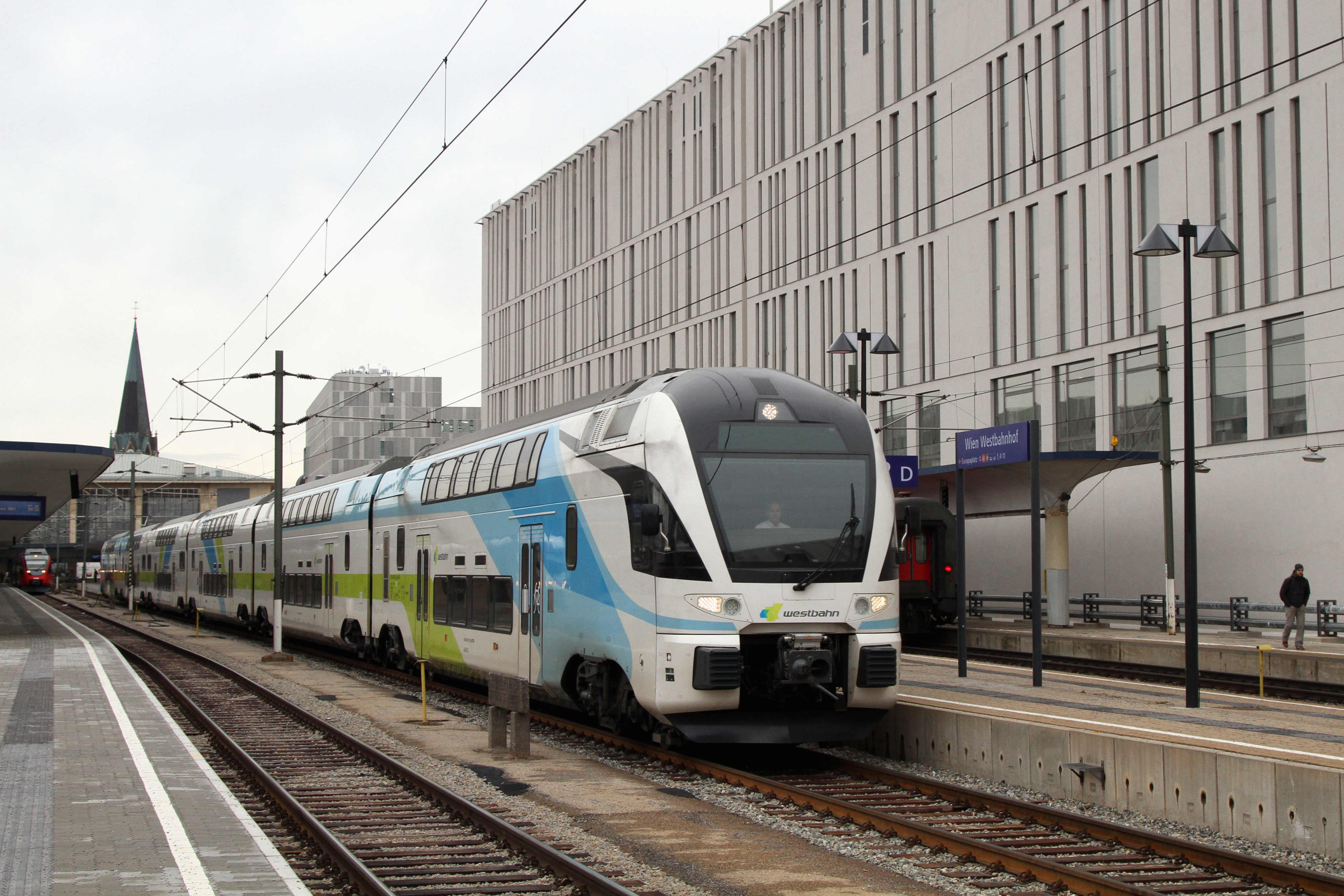 Westbahn GmbH's Stadler KISS 4010 001 leaving Wien Westbahnhof.